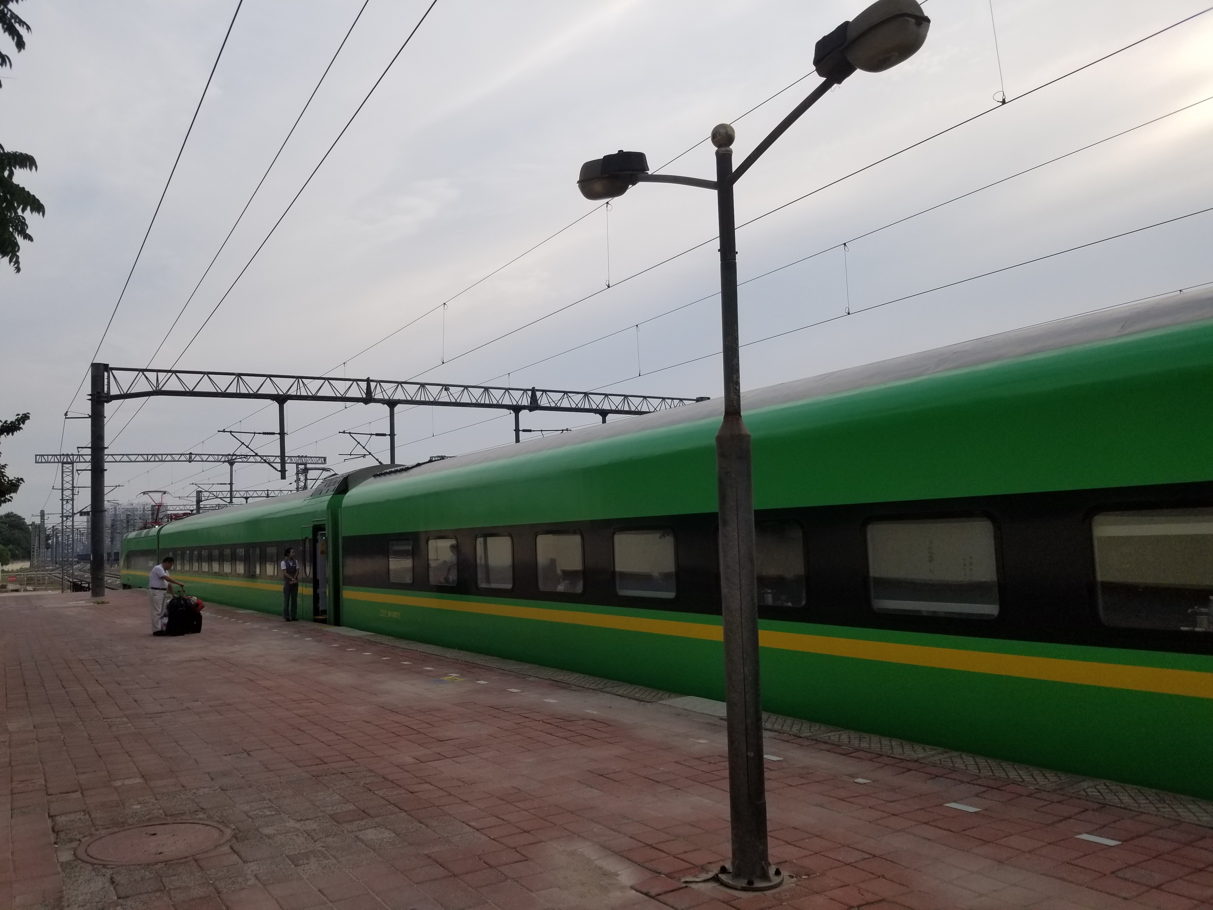 CR200J-6002 at Cangzhou Railway Station